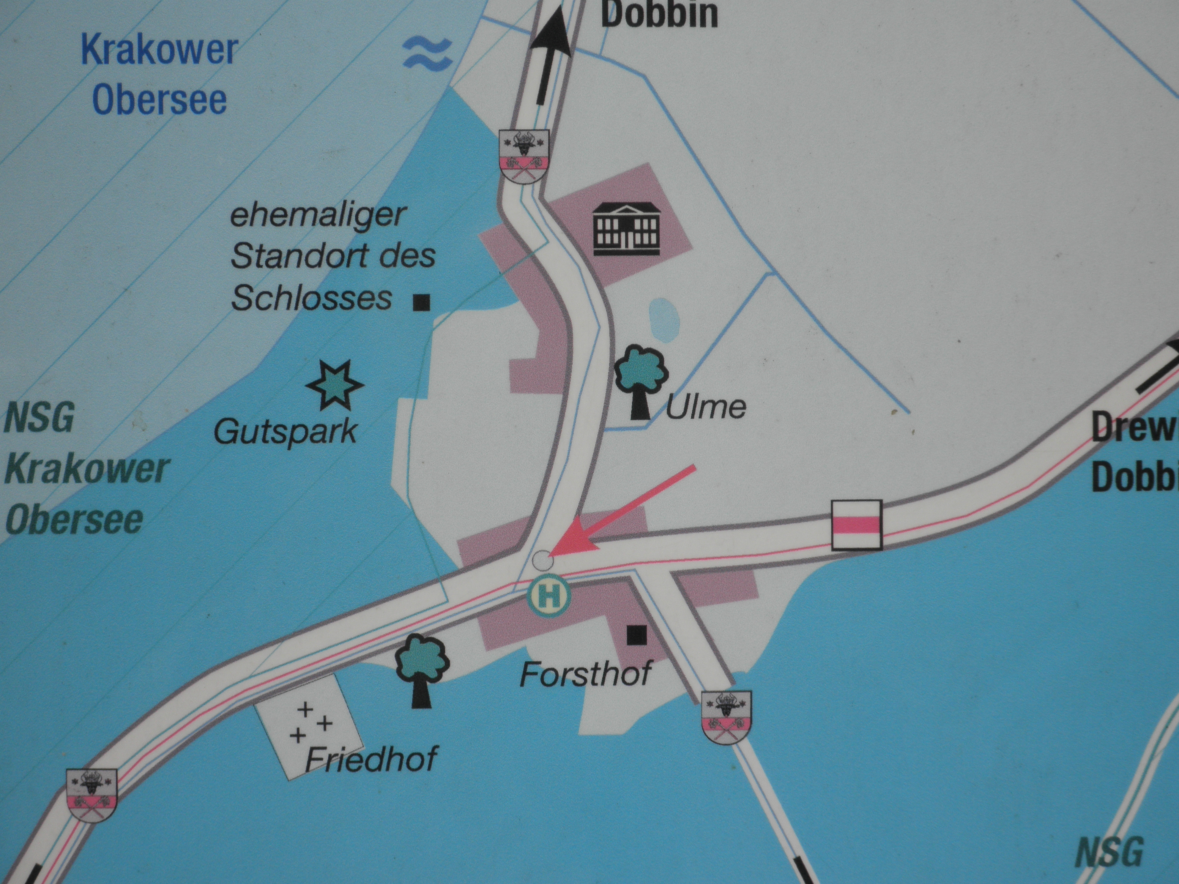 Groundplan of Glave in Mecklenburg-Vorpommern